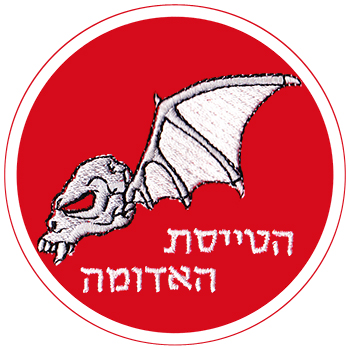 IAF Squadron 115 second variant symbol